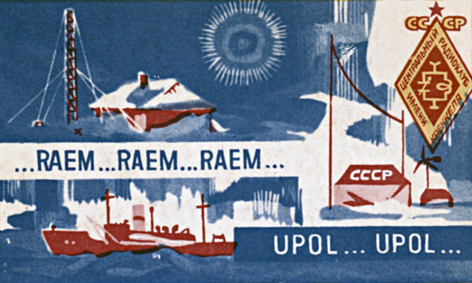 Soviet arctic radio stations RAEM and UPOL operated by Ernst Krenkel